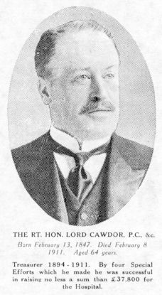 Frederick Campbell, 3rd Earl Cawdor (1847-1911)